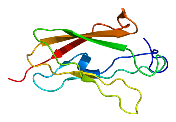 Structure of the FLNA protein. Based on PyMOL rendering of PDB 2aav.